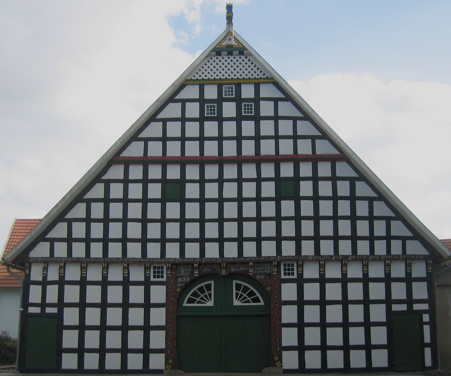 Farm house in the town of Rödinghausen-Bieren, Germany.